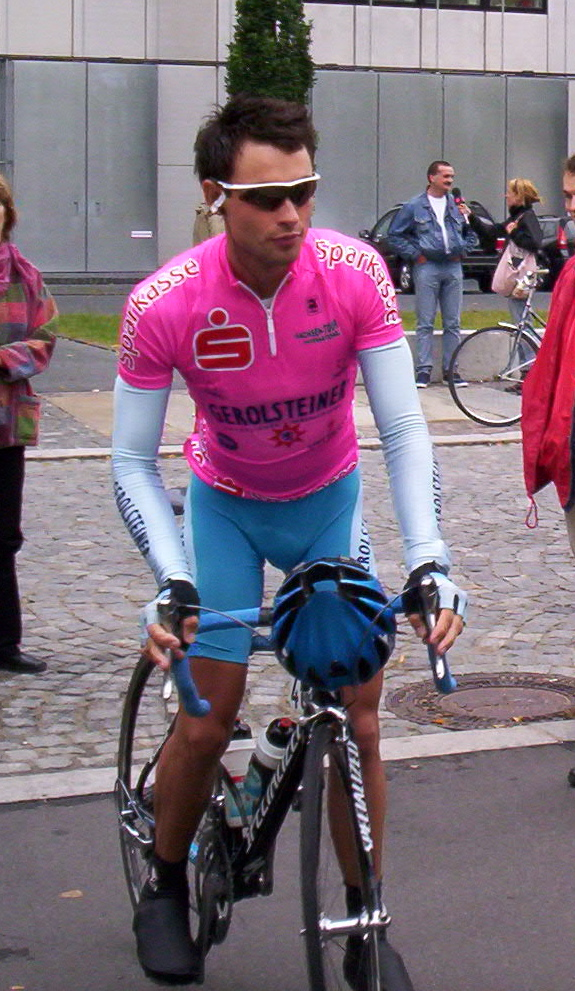 Thomas Ziegler - Sachsen Tour in Saxony, Germany, in 2005